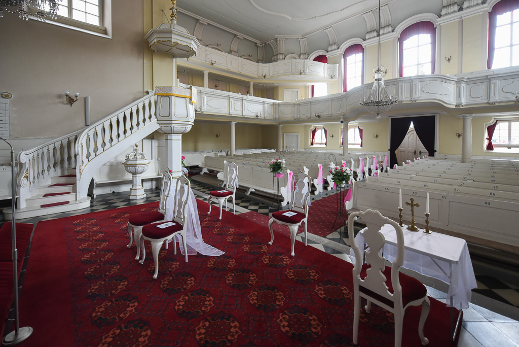 Photography of the interior of the Evangelical church in Pszczyna, with weddings decorations. View towards entrance.